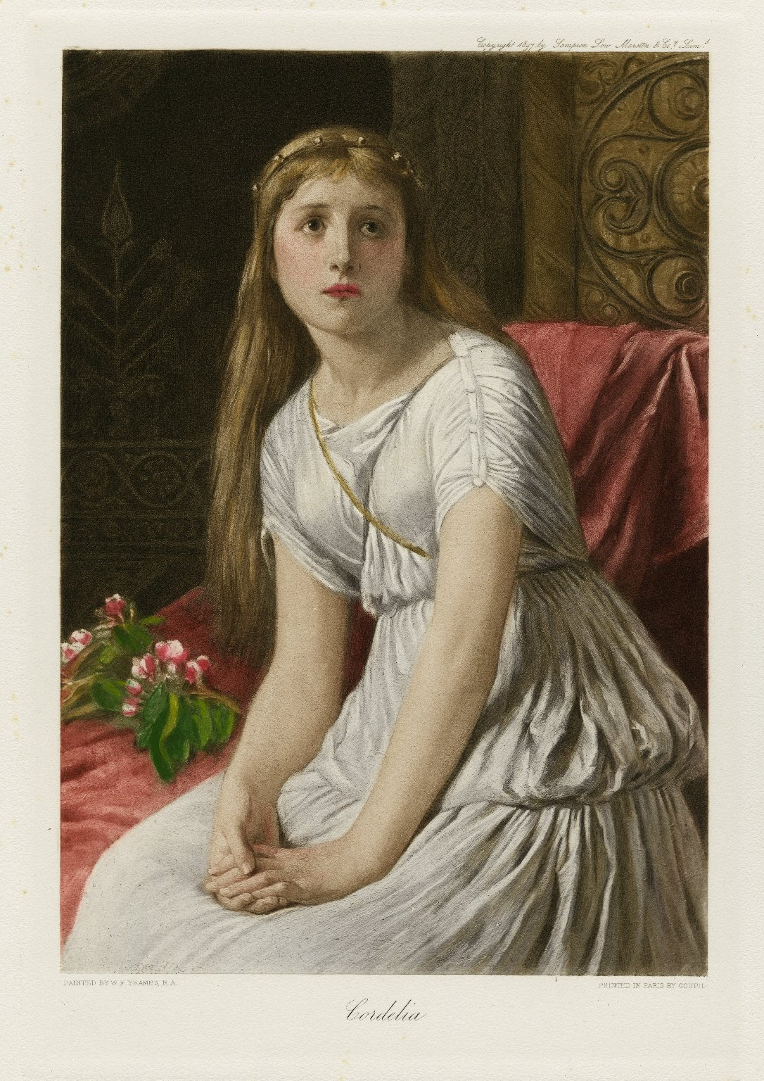 Image of Cordelia, from The Graphic Gallery of Shakespeare's Heroines